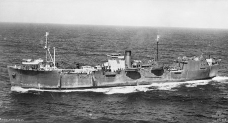 Aerial photograph of HMS Engadine, a Clan Line cargo ship requisitioned as a Royal Navy seaplane tender and aircraft transport